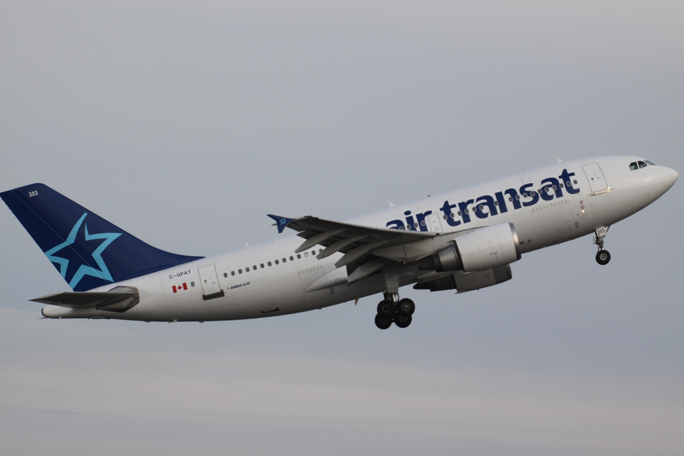 At Toronto Pearson International